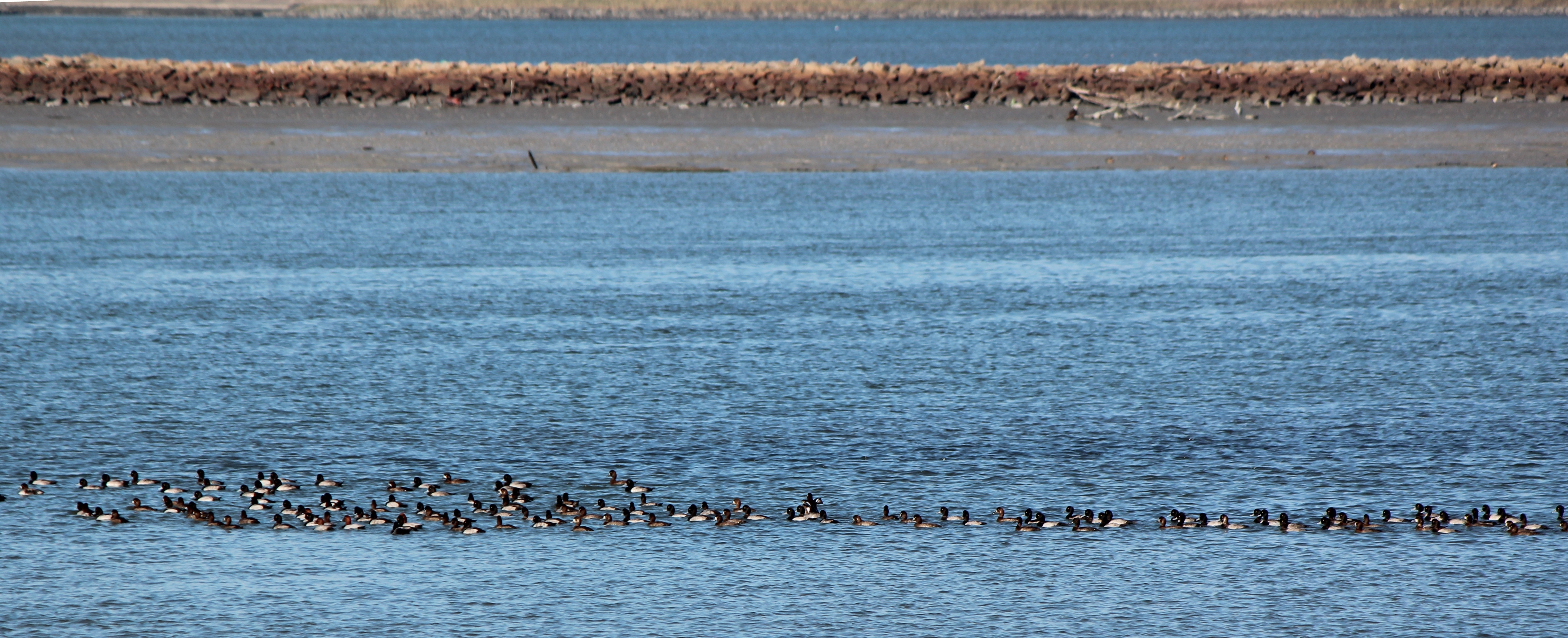 Aythya marila mariloides (Greater Scaup), flocks in Fujimae-higata